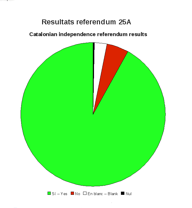 25th April 2010 Catalonian independence referendums, 2009–2010 results.